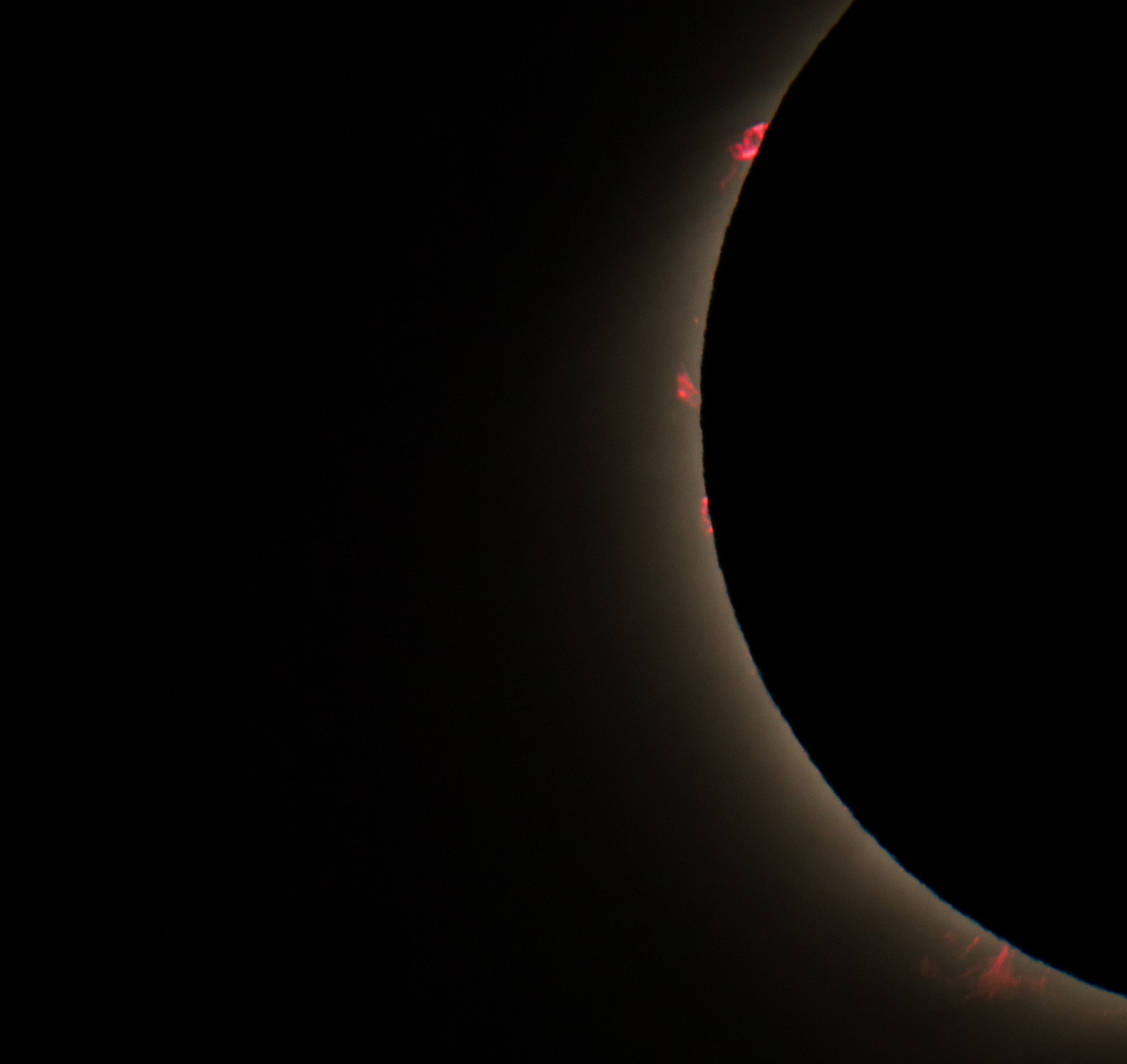 Chromosphere. Total solar eclipse 2019, Valle de Elqui. Chile.